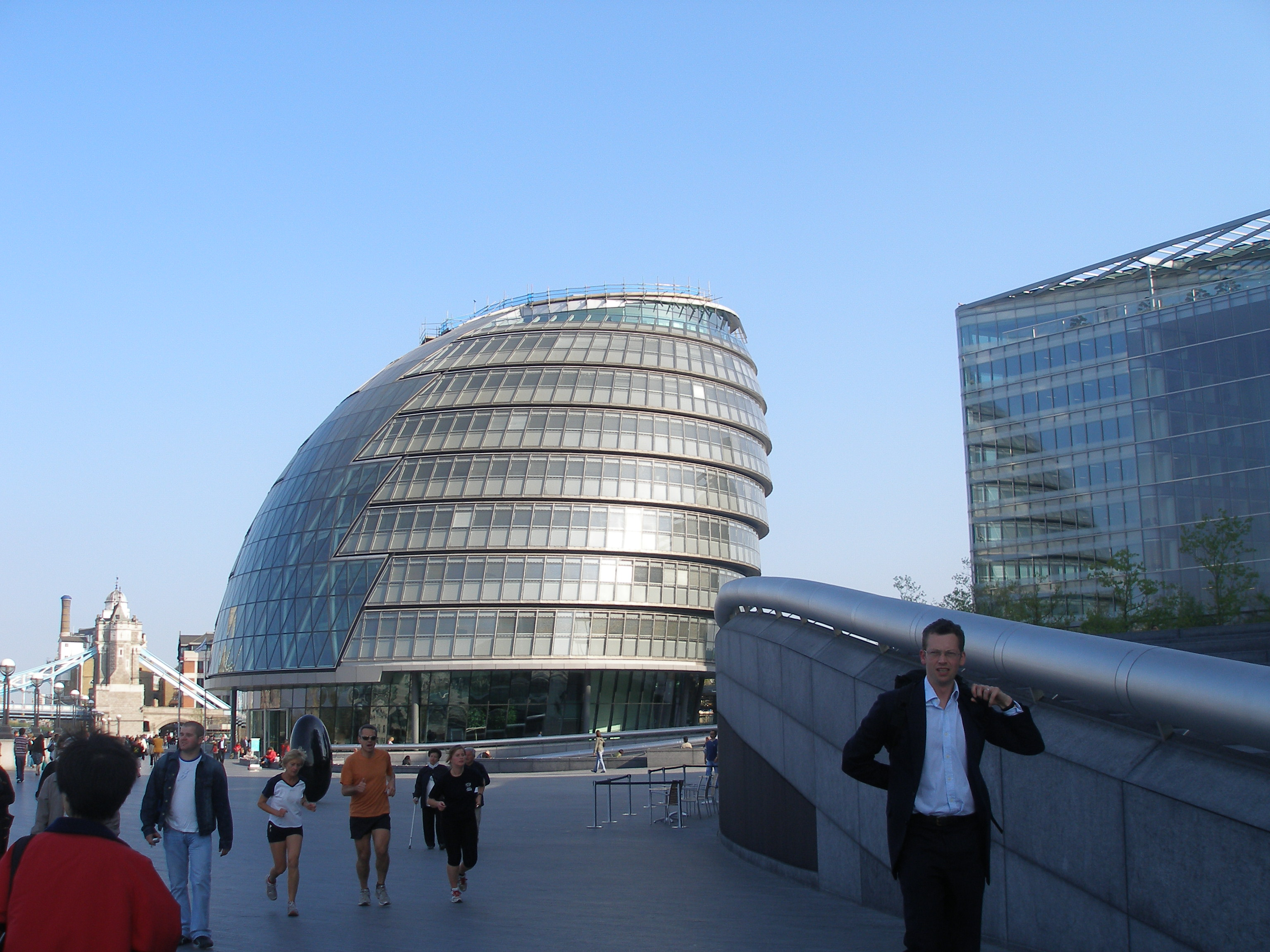 Queen's Walk by the City Hall